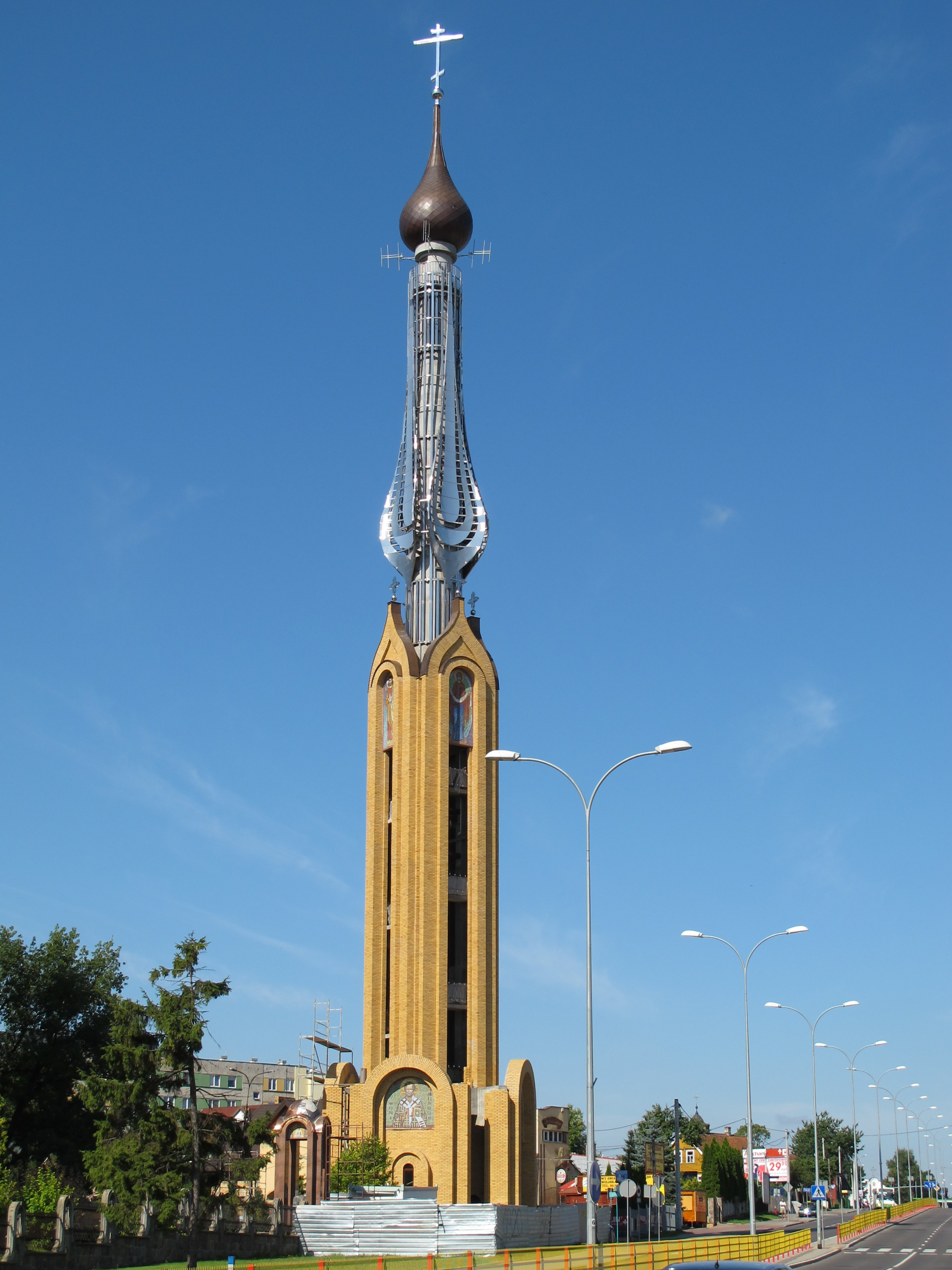 70m high belfry by the Holy Spirit orthodox church by Antoniuk Fabryczny 13 street in Białystok, podlaskie, Poland